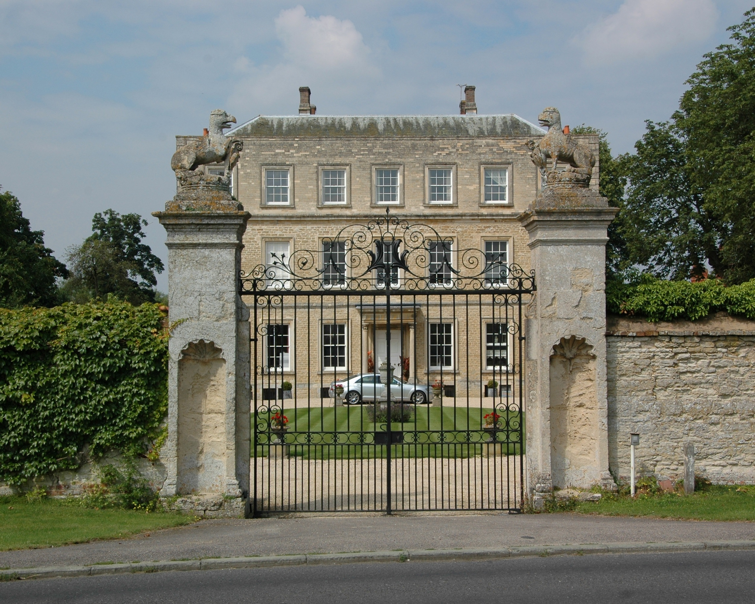 Gates of Newington House, Newington, Oxfordshire